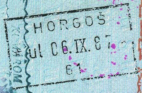 Passport stamp from Horgoš, 1987. Border crossing with Hungary at Röszke.